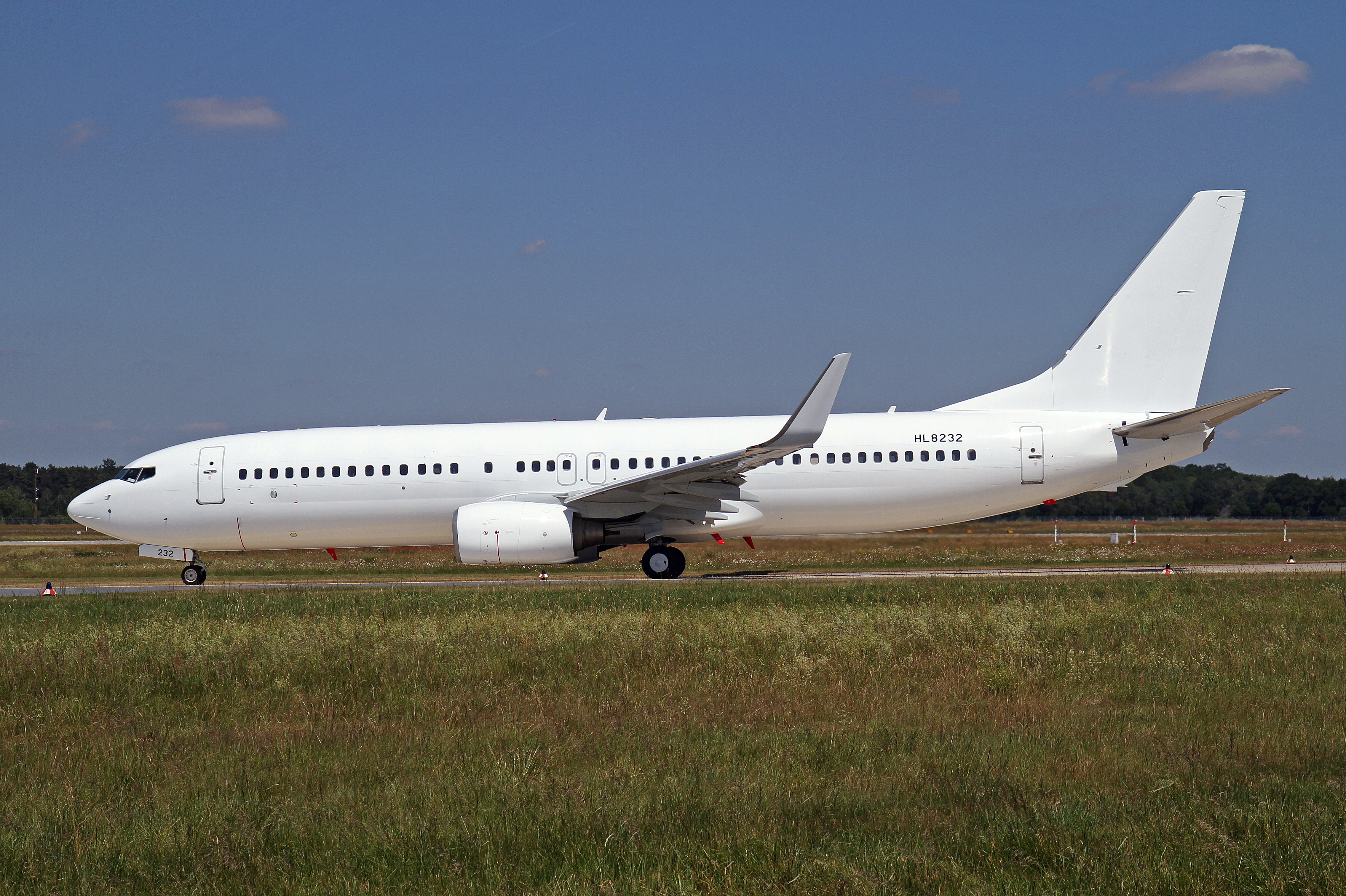 ex tuifly delivery flight via Tashkent [uz] to South Korea HAJ / EDDV 27-06-10